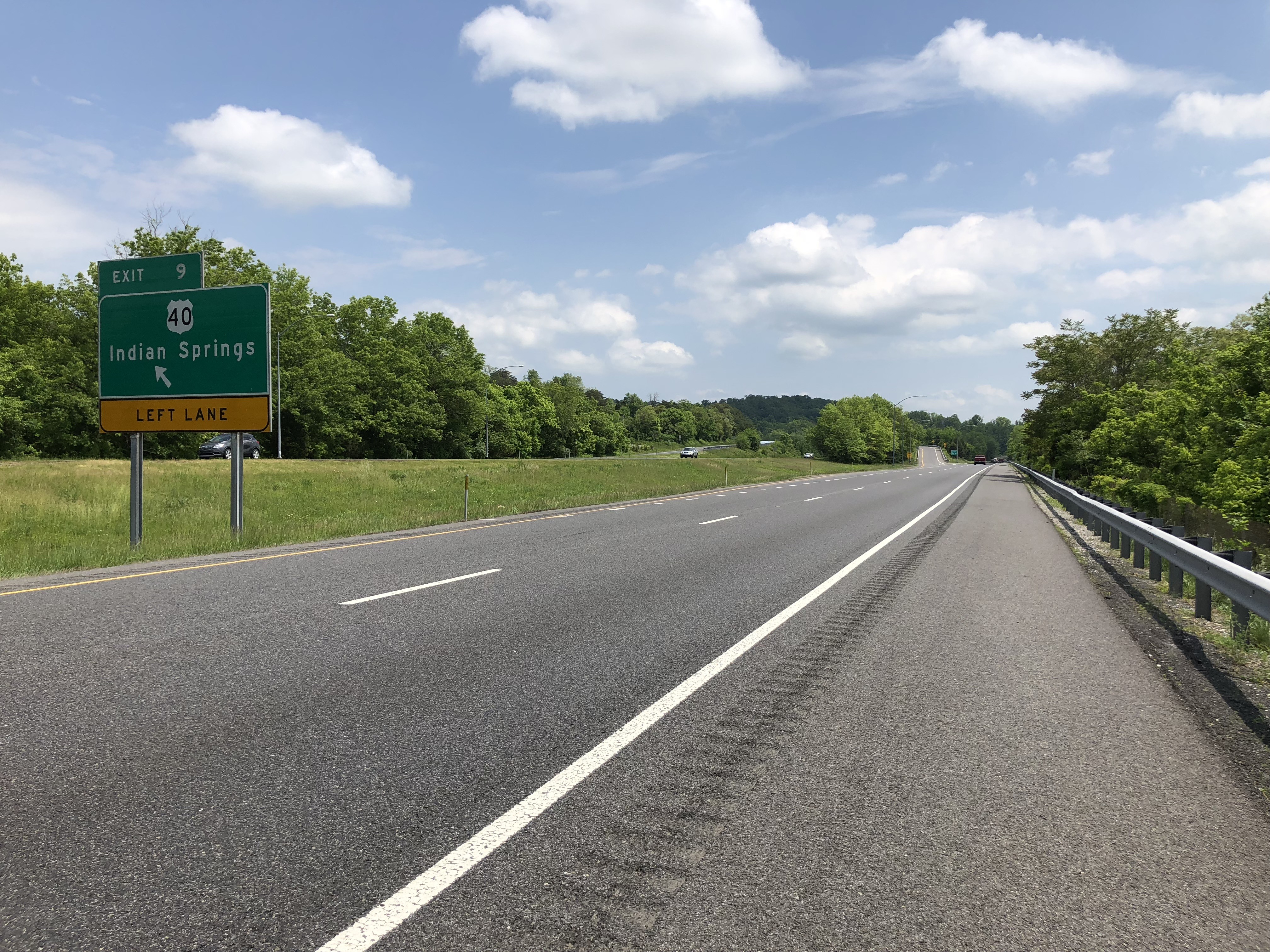 View east along Interstate 70 and U.S. Route 40 at Exit 9 (U.S. Route 40, Indian Springs) in Pecktonville, Washington County, Maryland